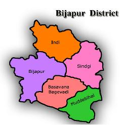 Map of Biajpur